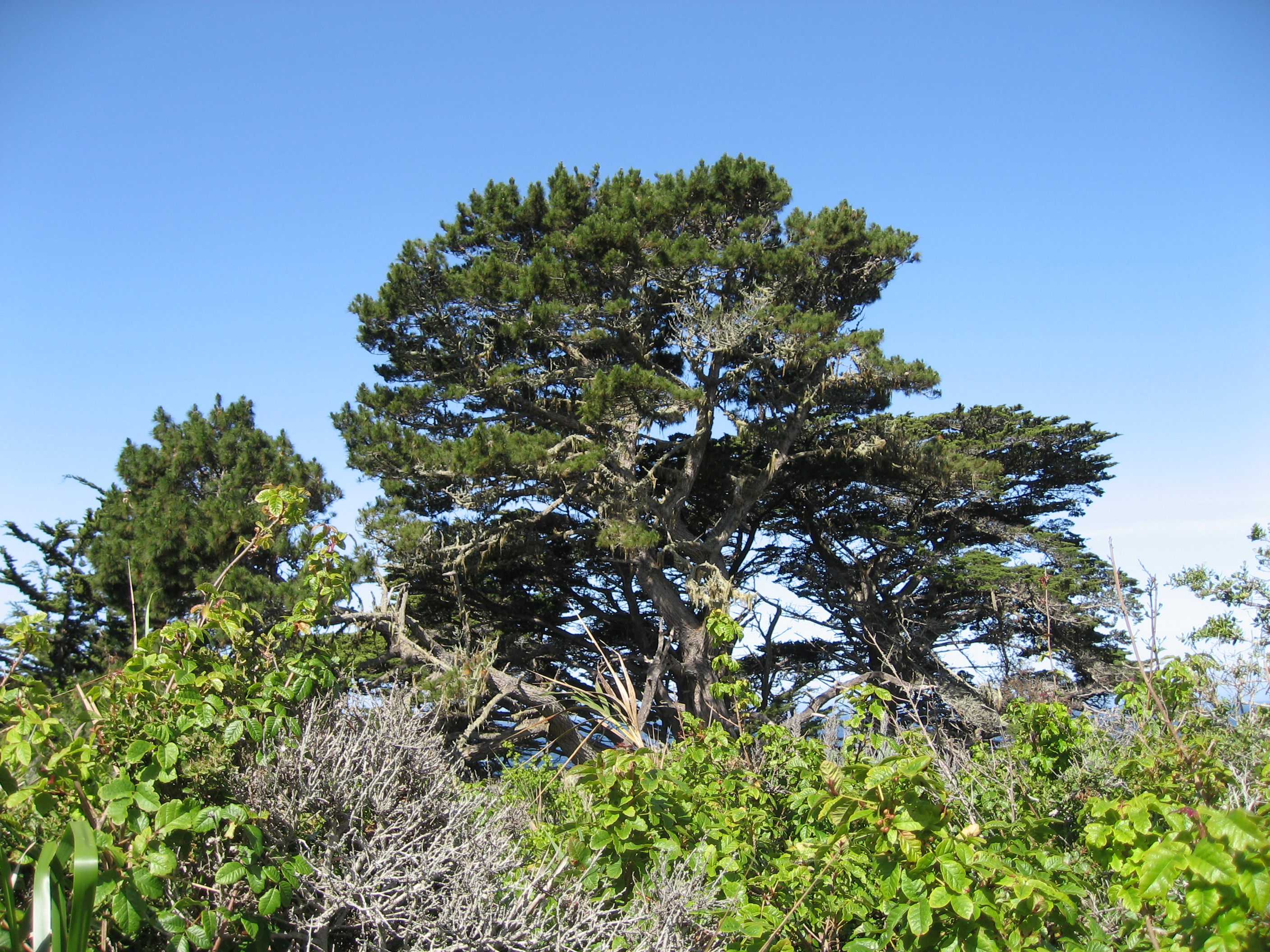 Pinus radiata (center and near left) and Cupressus macrocarpa (right and far left), Whaler's Knoll, Point Lobos State Park, Monterey Co., California